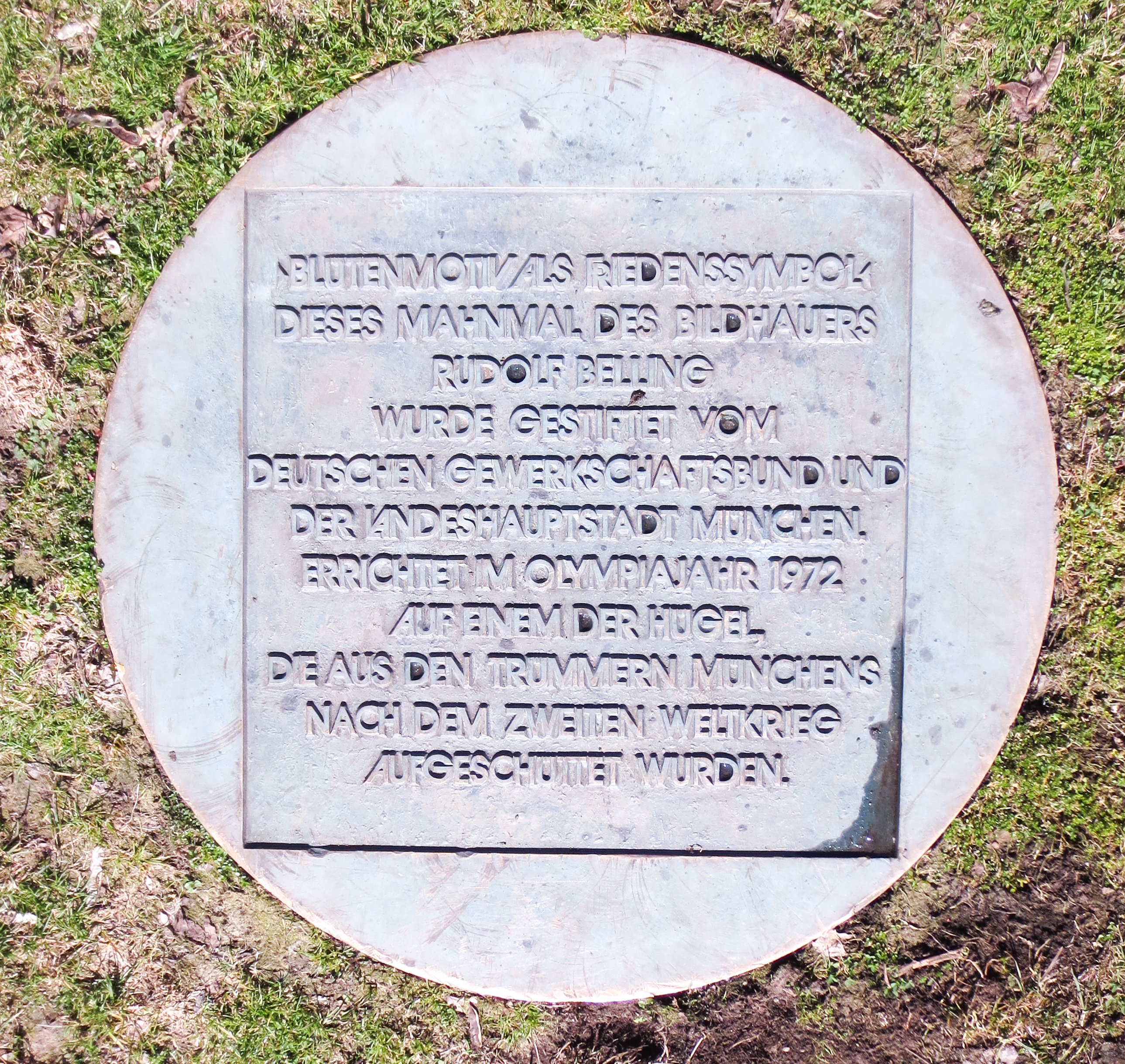 Memorial tablet of Rudolf Bellings Blossom-Theme. It's also called "Schuttblume". It is a memorial for the civil victims of the aerial warfare.